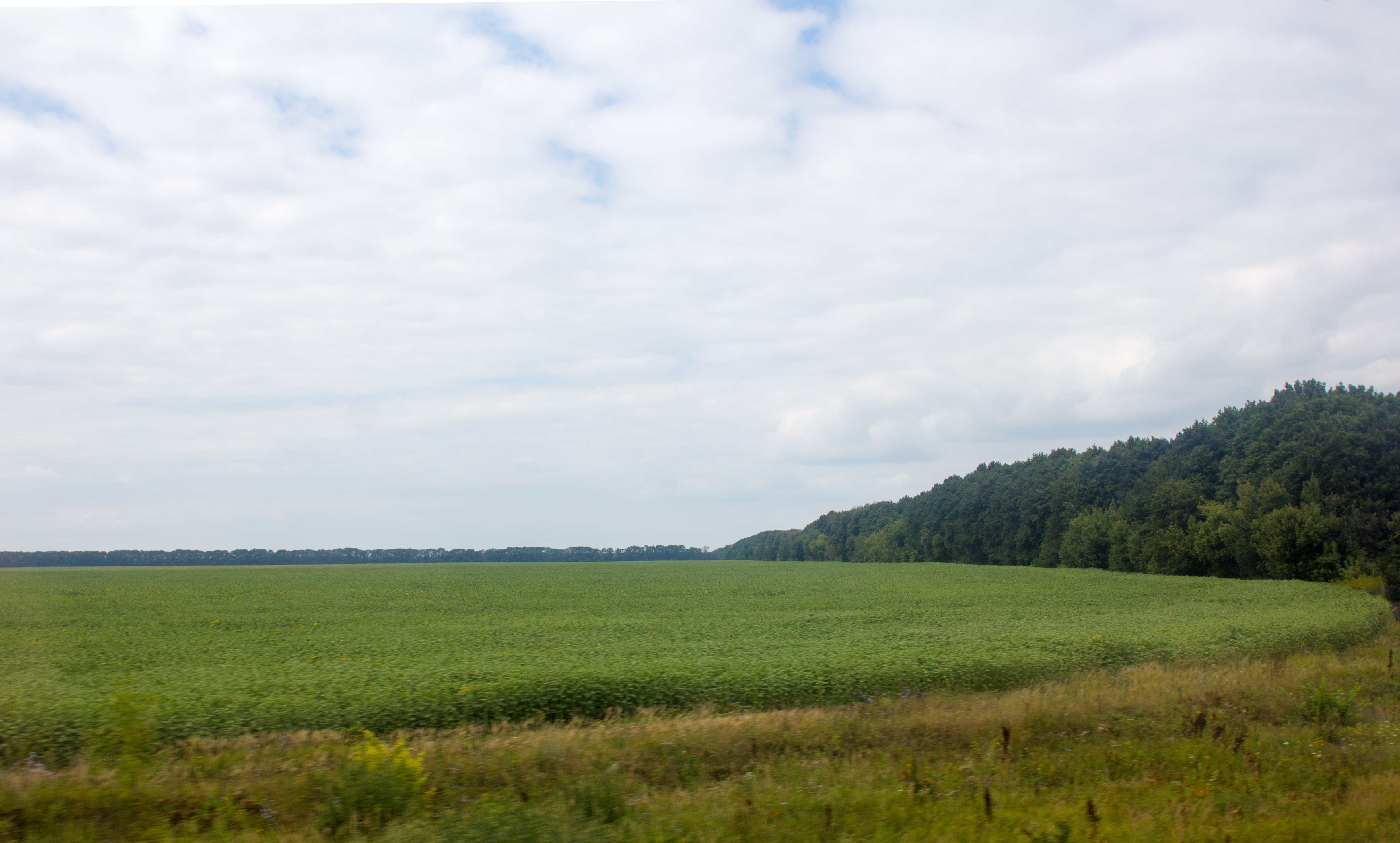 View from train window